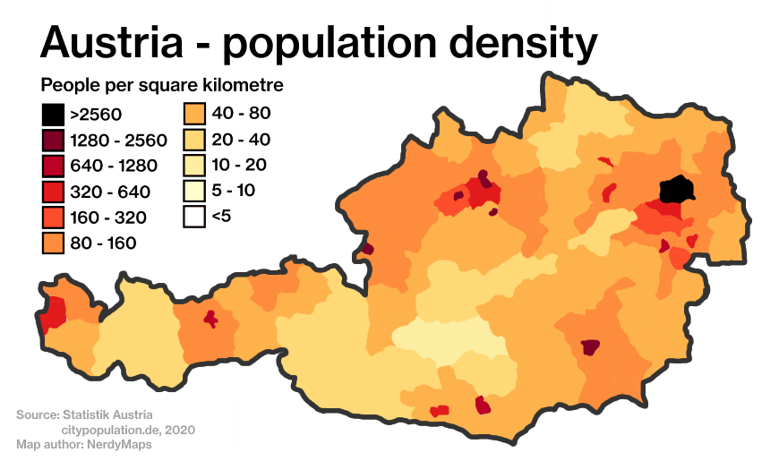 A map representing the population density in Austria by districts, as of 2020